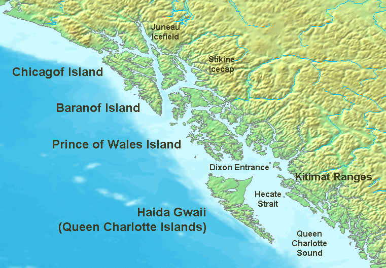 Map of the coast of the Pacific Northwest --- Islands and major straits of the northern American pacific coast showing Prince of Wales Island (Alaska), Queen Charlotte Sound (Canada), Dixon Entrance, Hecate Strait, Baranof Island, Chichagof Island, Juneau Icefield, Stikine Icecap and other